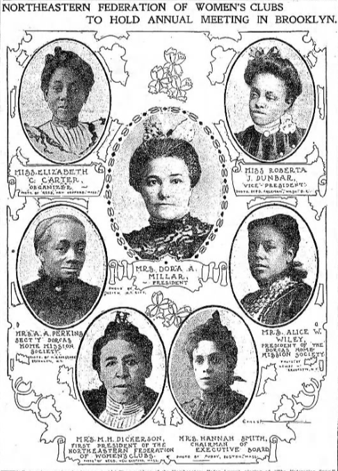 Women involved in the Northeastern Federation of Colored Women's Clubs, 1902. Illustration from the Brooklyn Daily Eagle.